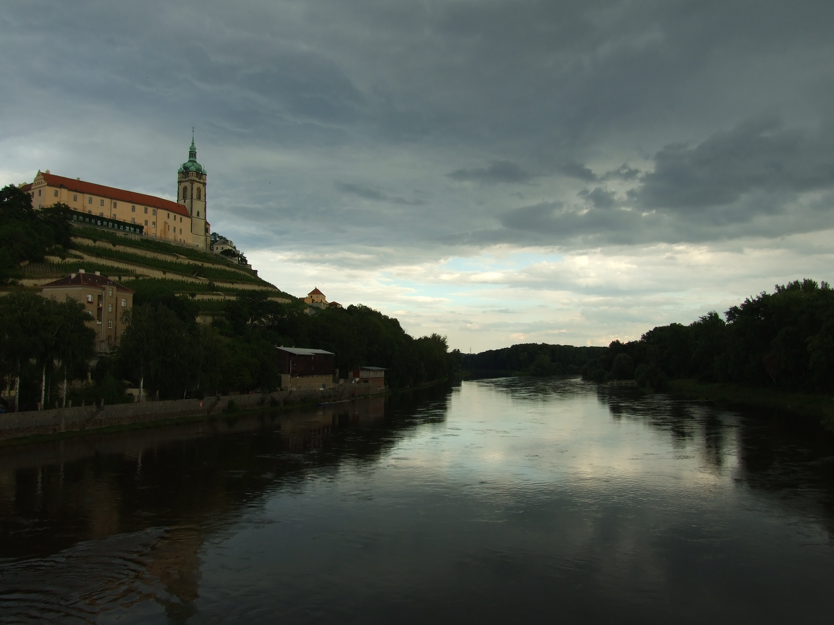 Mělník Castle, important landmark and symbol of the city of Mělník. Central Bohemian Region, CZhelp